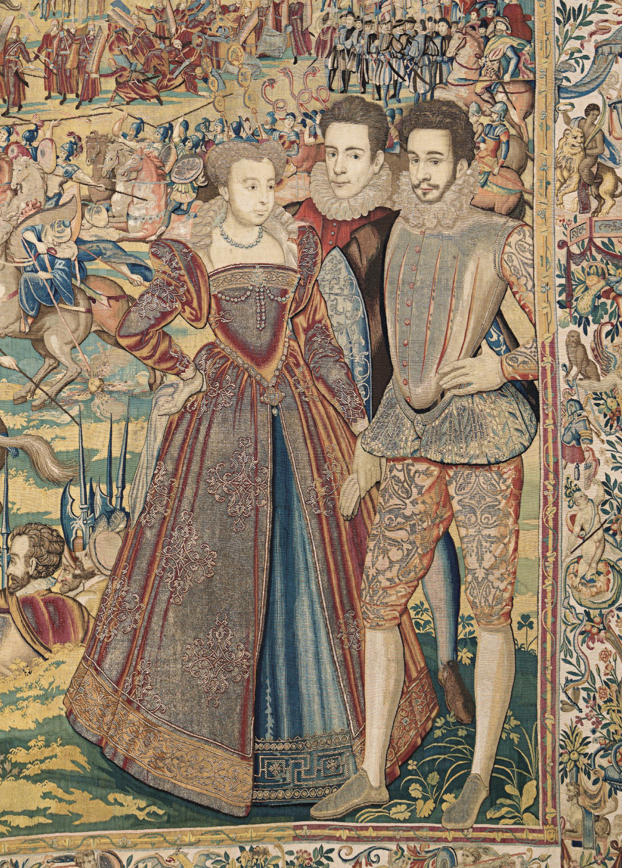 Marguerite de Valois with her brother François, Duke of Anjou (right). Detail of the Valois Tapestries.